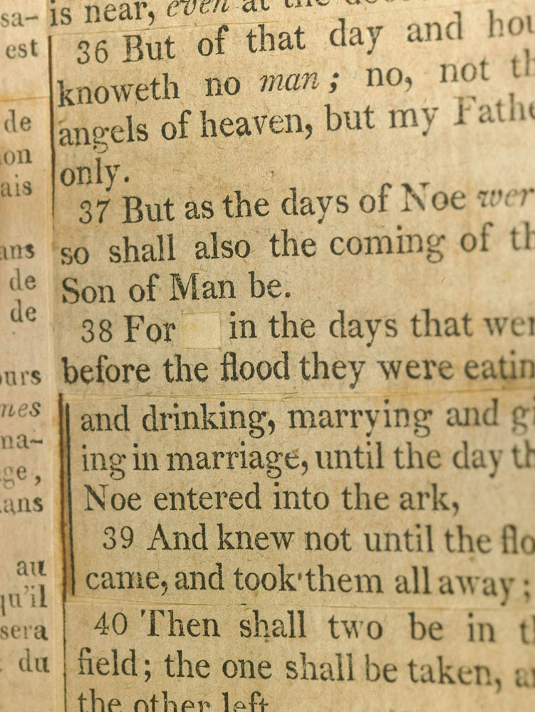 Jefferson extracts the word "as," from a sentence, to avoid three prepositions in a row. This grammatical correction appears on page 65.